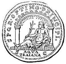 AQVA. TRAIANA. S. P. Q. R OPTIMO PRINCIPI. S. C.—The genius of a river reclined within a cavern, or arched vault, holding in his right hand an aquatic reed, and resting his left arm on an urn, whence there is a flow of water.—On a first and middle brass of Trajan, struck about A.U.C. 864 [A.D. 111].